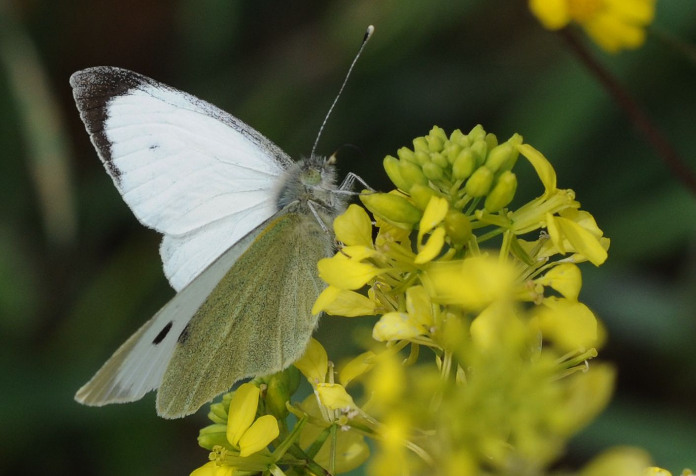 Wing upperside view of a male Large Cabbage White (Pieris brassicae) butterfly feeding nectar of wild mustard flowers (Sinapis arvensis).